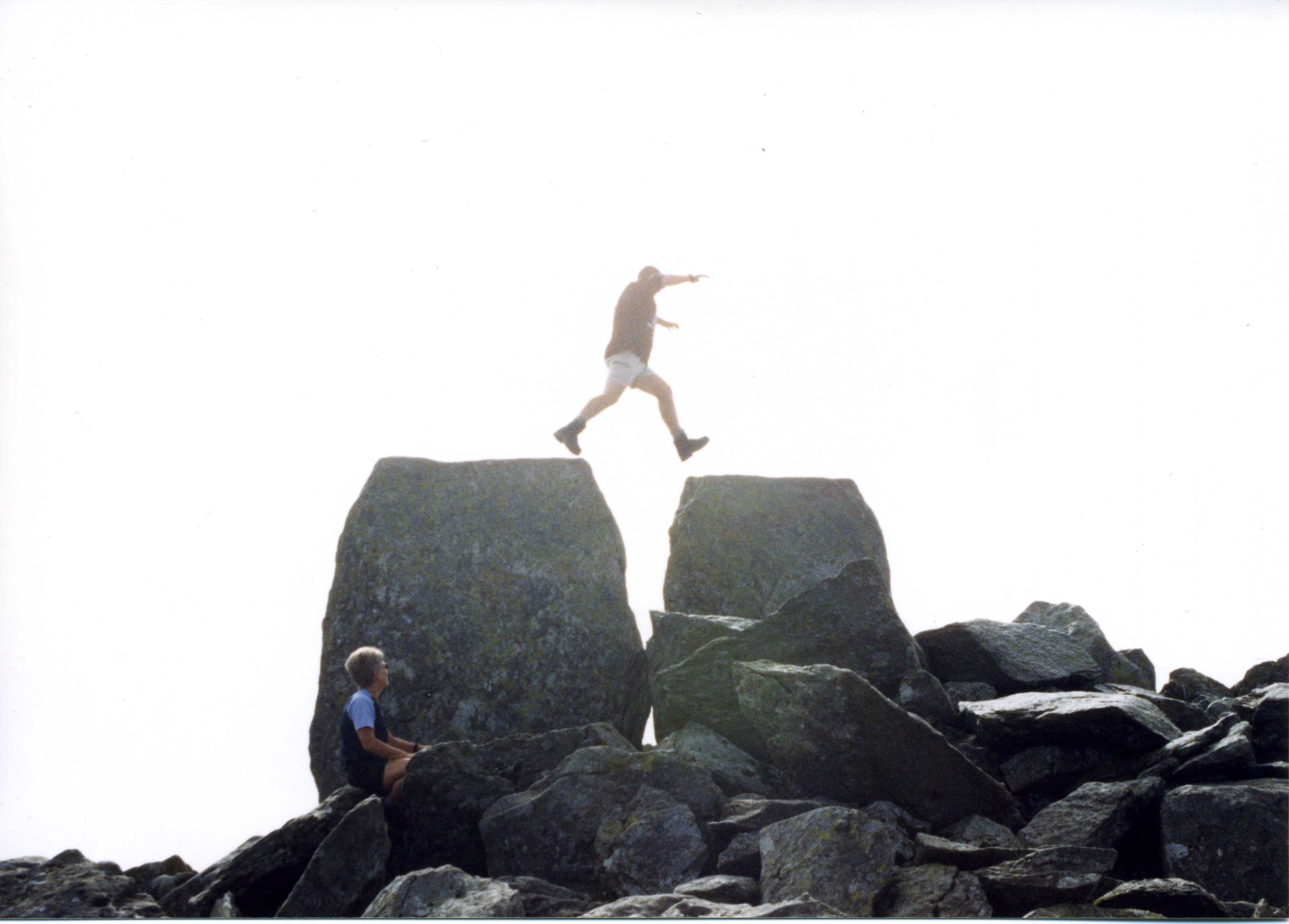 My own Photograph. Taking the leap Back from Adam to Eve on Tryfan, Snowdonia, Wales. D.I.Dootson.